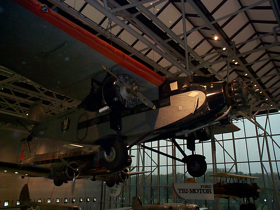 Ford 5-AT Tri-motor American Airways N9683 at the National Air and Space Museum